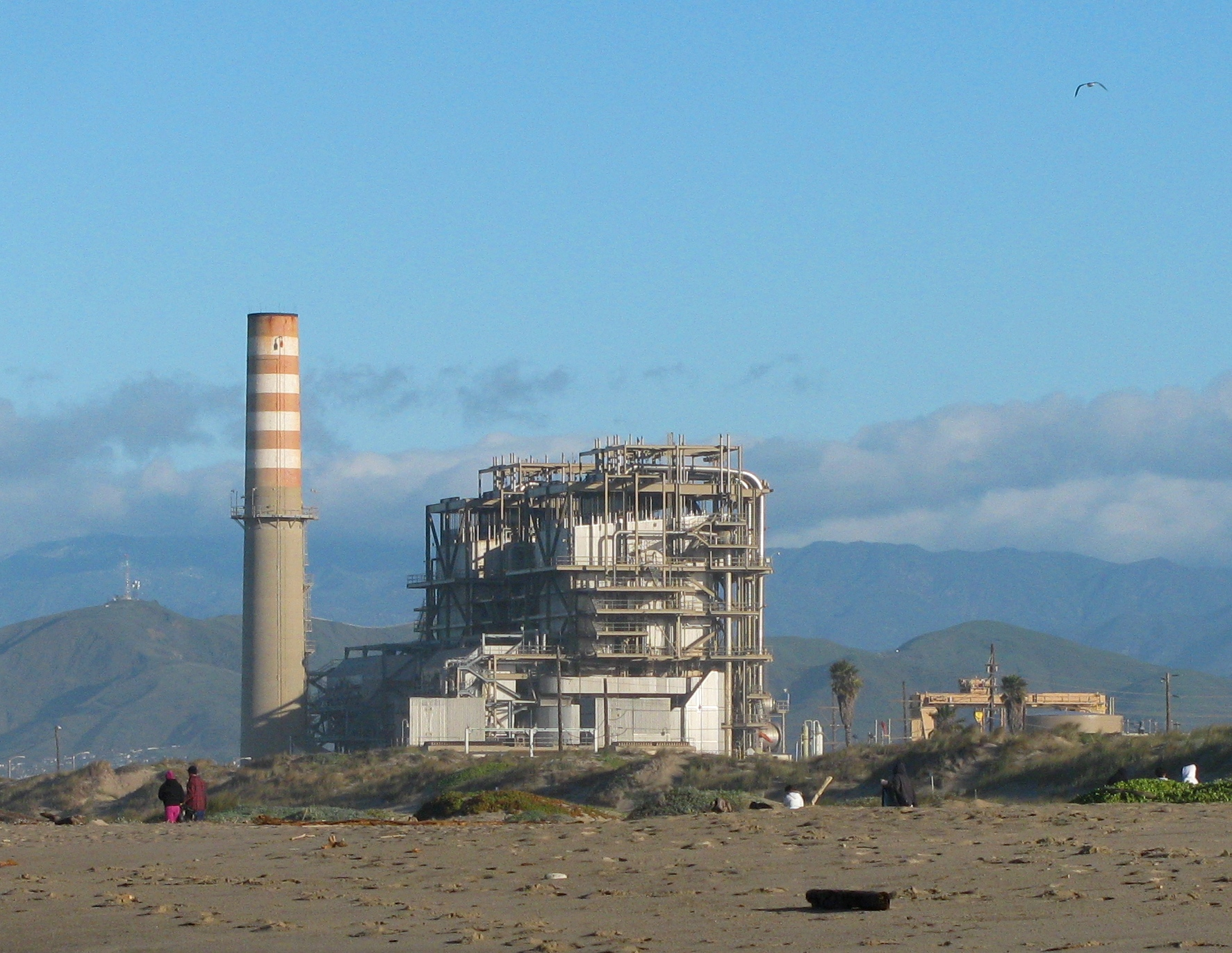 Mandalay Generating Station, Oxnard, California; photo by self, GFDL/equiv